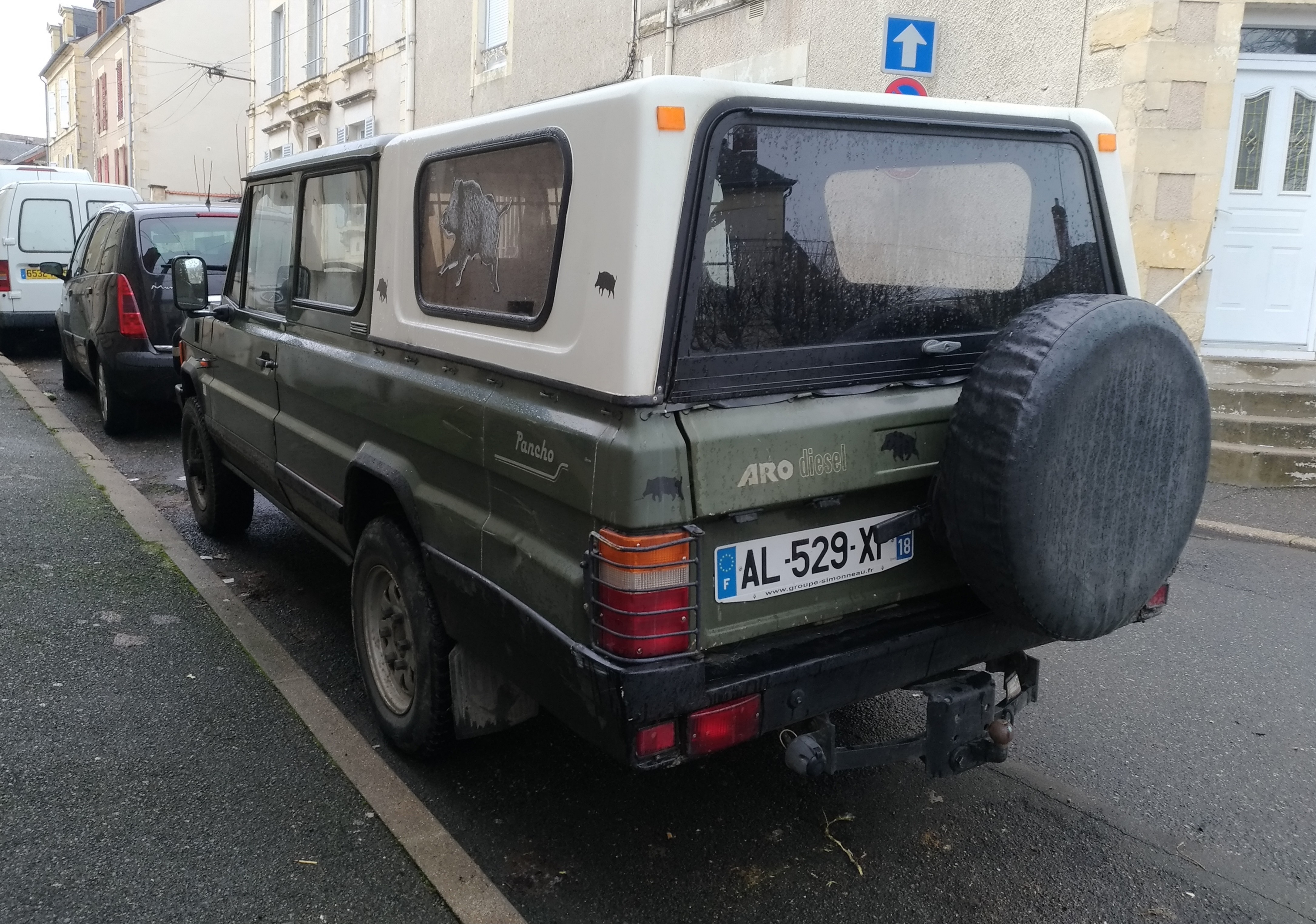 1998 Aro 10 (1.9 D 65 hp) at Nevers